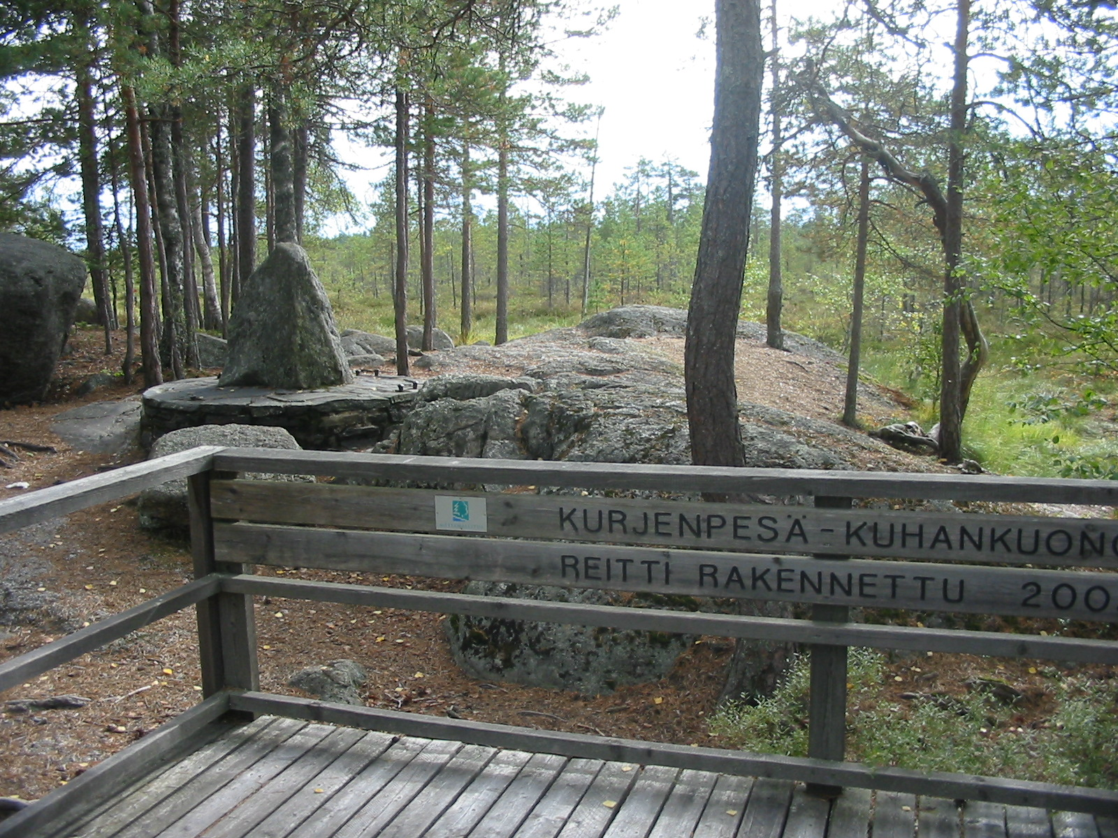 Kuhankuono boundary stone in Kurjenrahka national park, Finland Proper